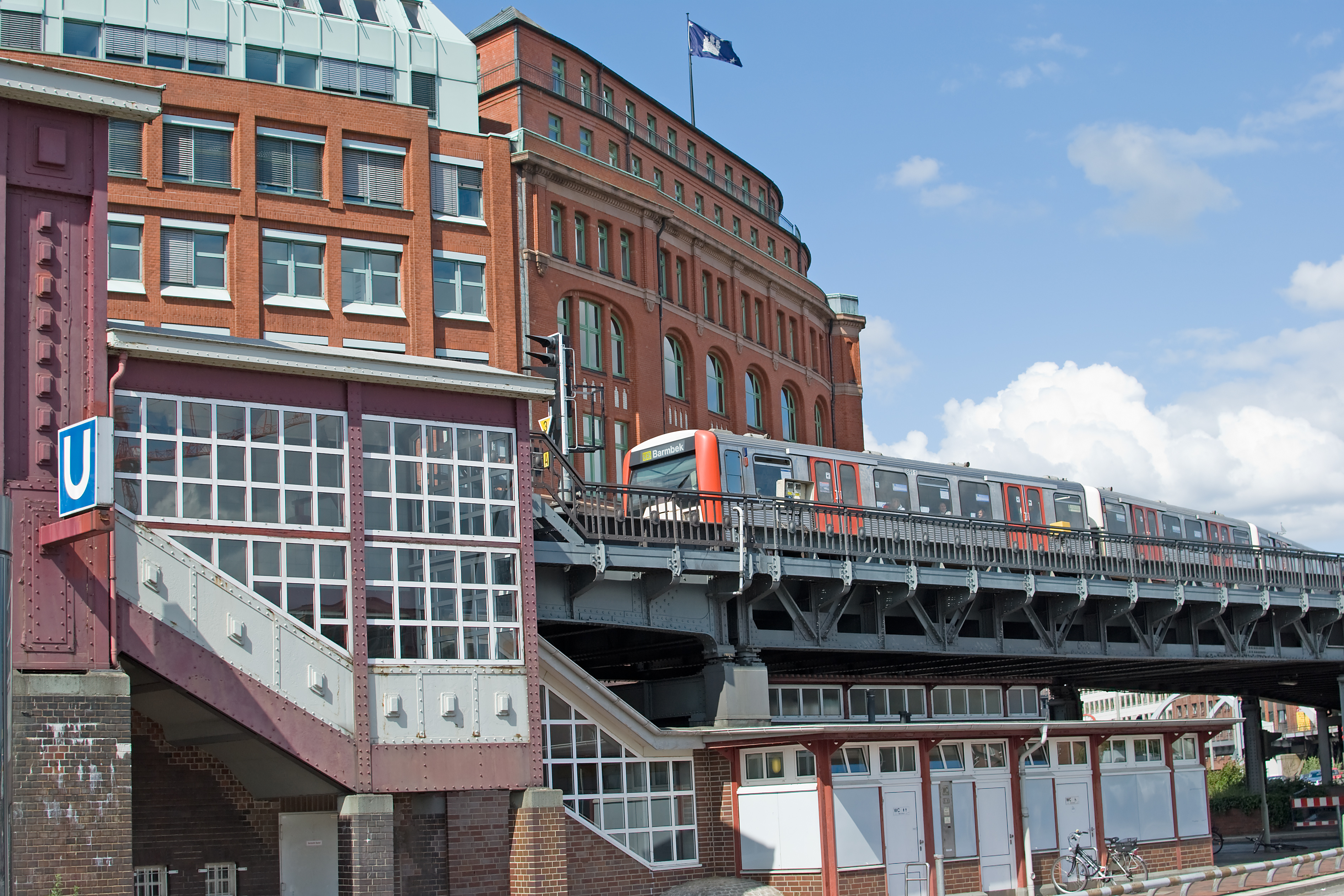 Hochbahn Hamburg